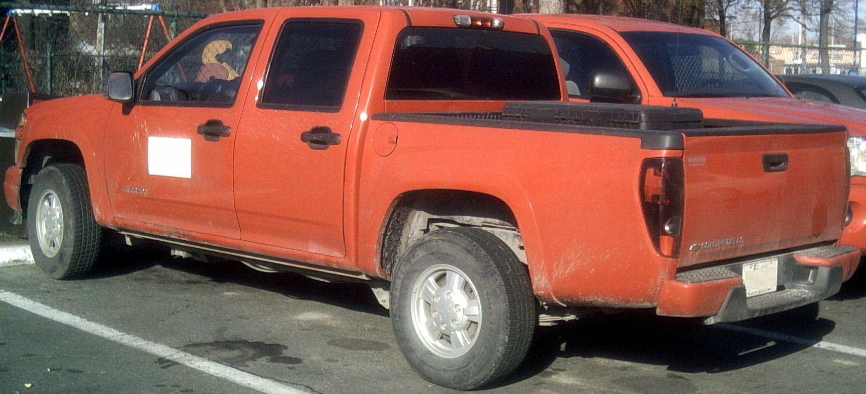 2004-present Chevrolet Colorado photographed in Montreal, Quebec, Canada.